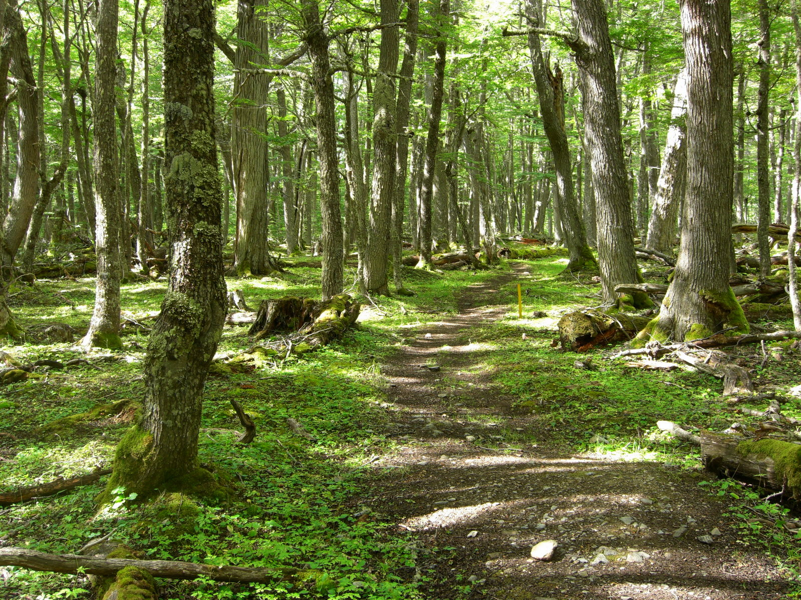 Doesn't this look cozy and inviting? Perfect for a nice cabalgata...